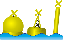 Special mark in IALA system.